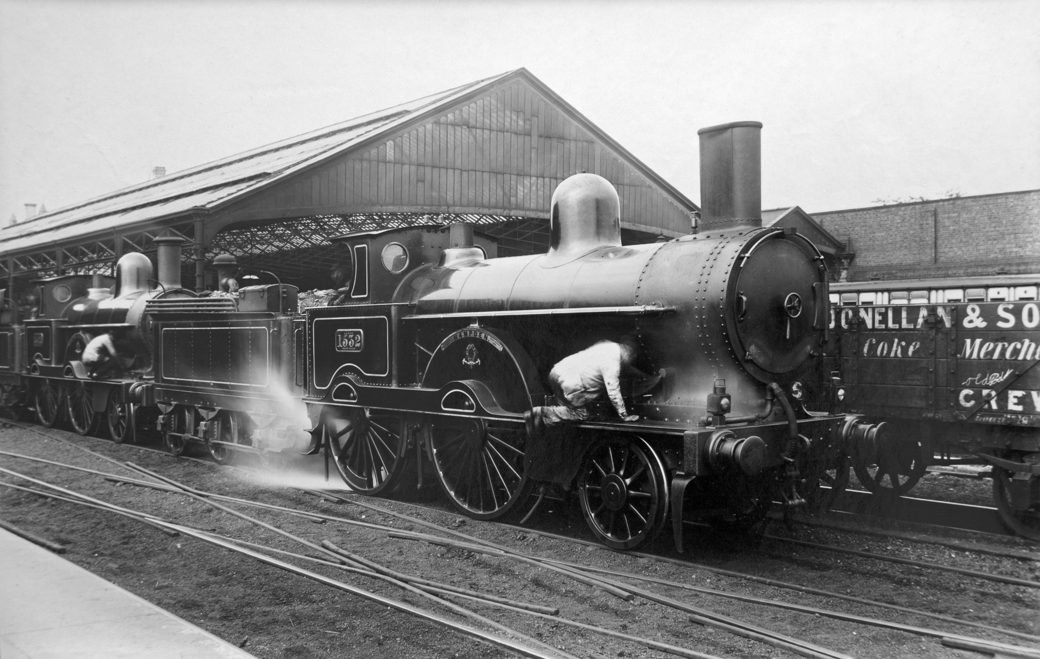 An example of a LNWR Improved Precedent Class 2-4-0. They were designed by F.W. Webb. 166 were built in batches at the Crewe Works between 1887-1897 with two further additions in 1898 and 1901 respectively. One Improved Precendent, 790 Hardwicke (built 1892, LMS No. 5031, withdrawn 1932) has been preserved as part of the National Railway Collection. The chimney on this engine seems to be an experimental design, perhaps using a double blast pipe? Link to Hardwicke This photo was taken from an old original photo we came across while helping to clear the house of a deceased friend. I have uploaded it to Flickr in the hope that it might be interesting to steam enthusiasts.